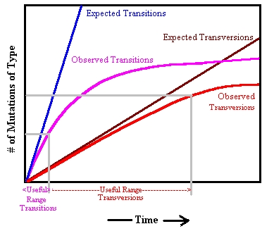 Image is for Anthropoid mitochondrial SNP saturation observed within the HVR I region of the D-loop.